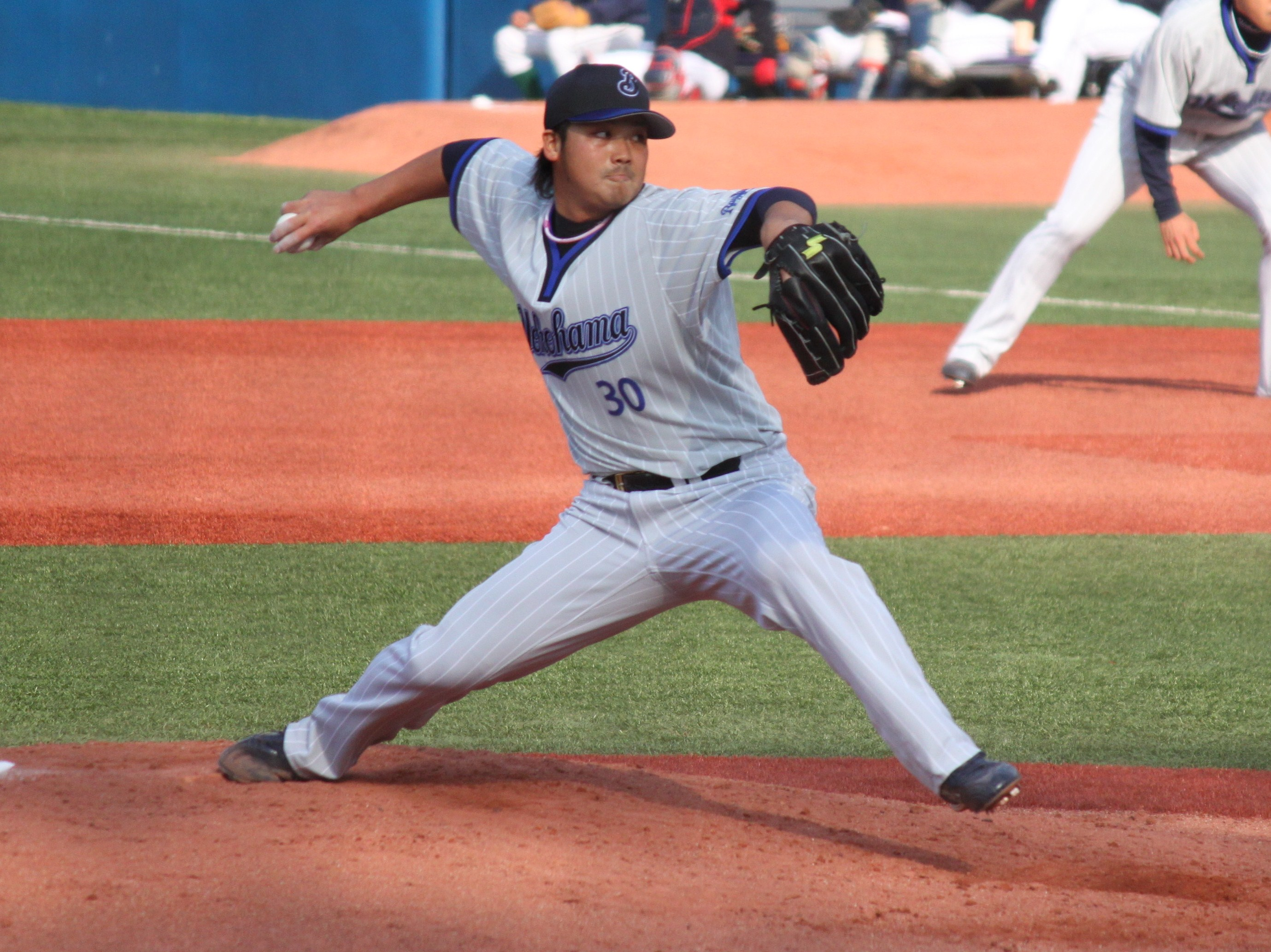 Hiroki Sanada, pitcher of the Yokohama BayStars, at Meiji Jingu Stadium.